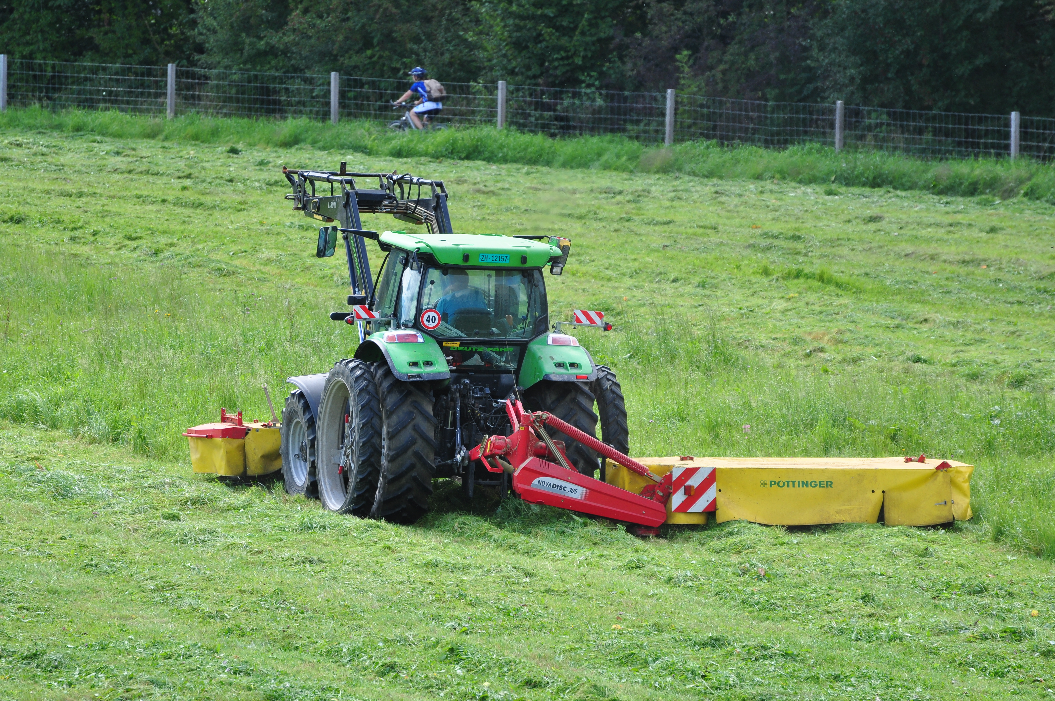 Sihl - Allmend in Zürich-Brunau (Switzerland); Deutz-Fahr Agrotron tractor with a Pöttinger Novadisc 350 rear-mounted disc mower (304 mm working width) and a Pöttinger front mower